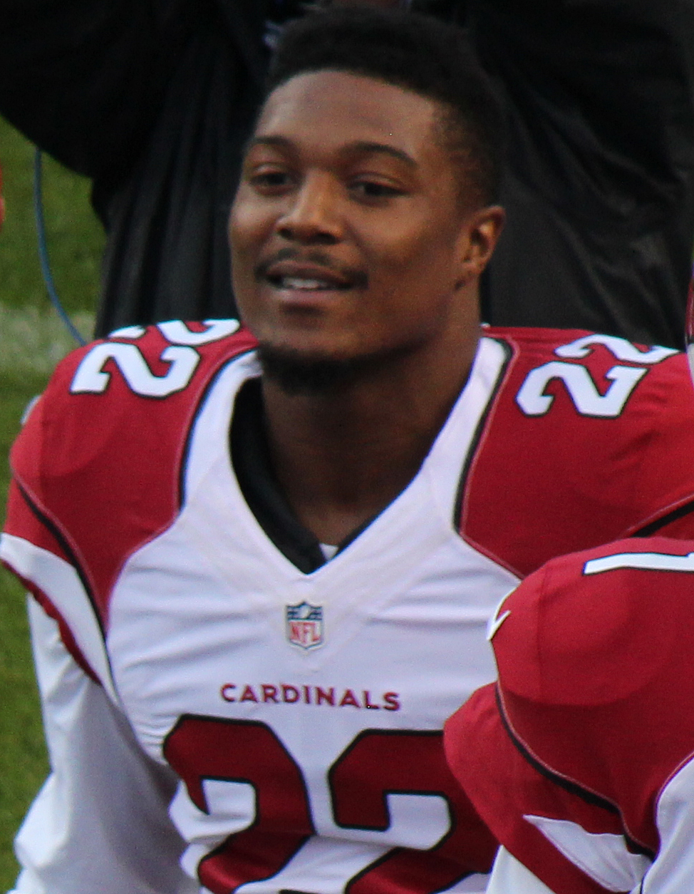 Tony Jefferson, a player on the Nationa Football League.